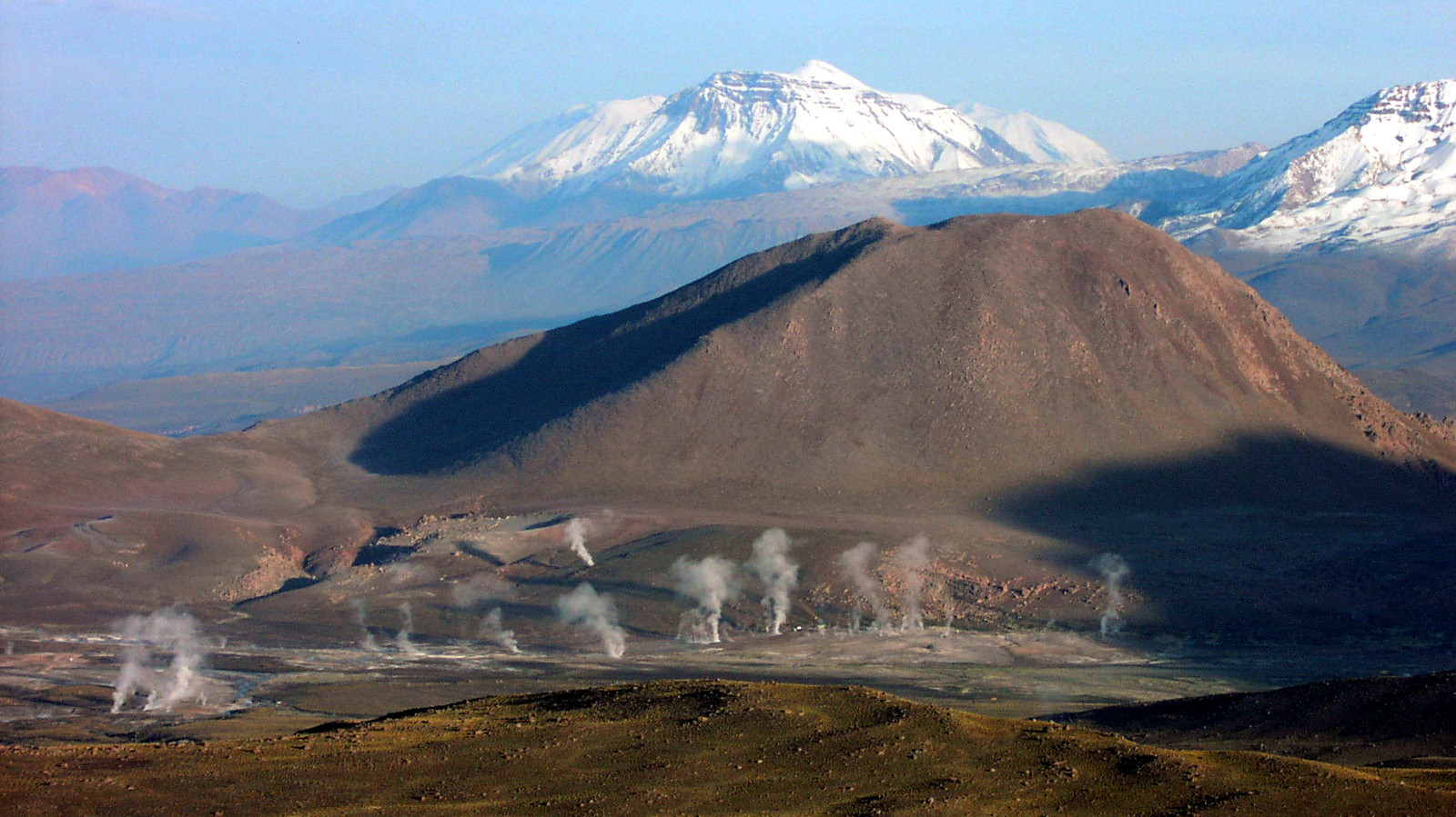 El Tatio geysers as seen in the morning from Cerro Soquete